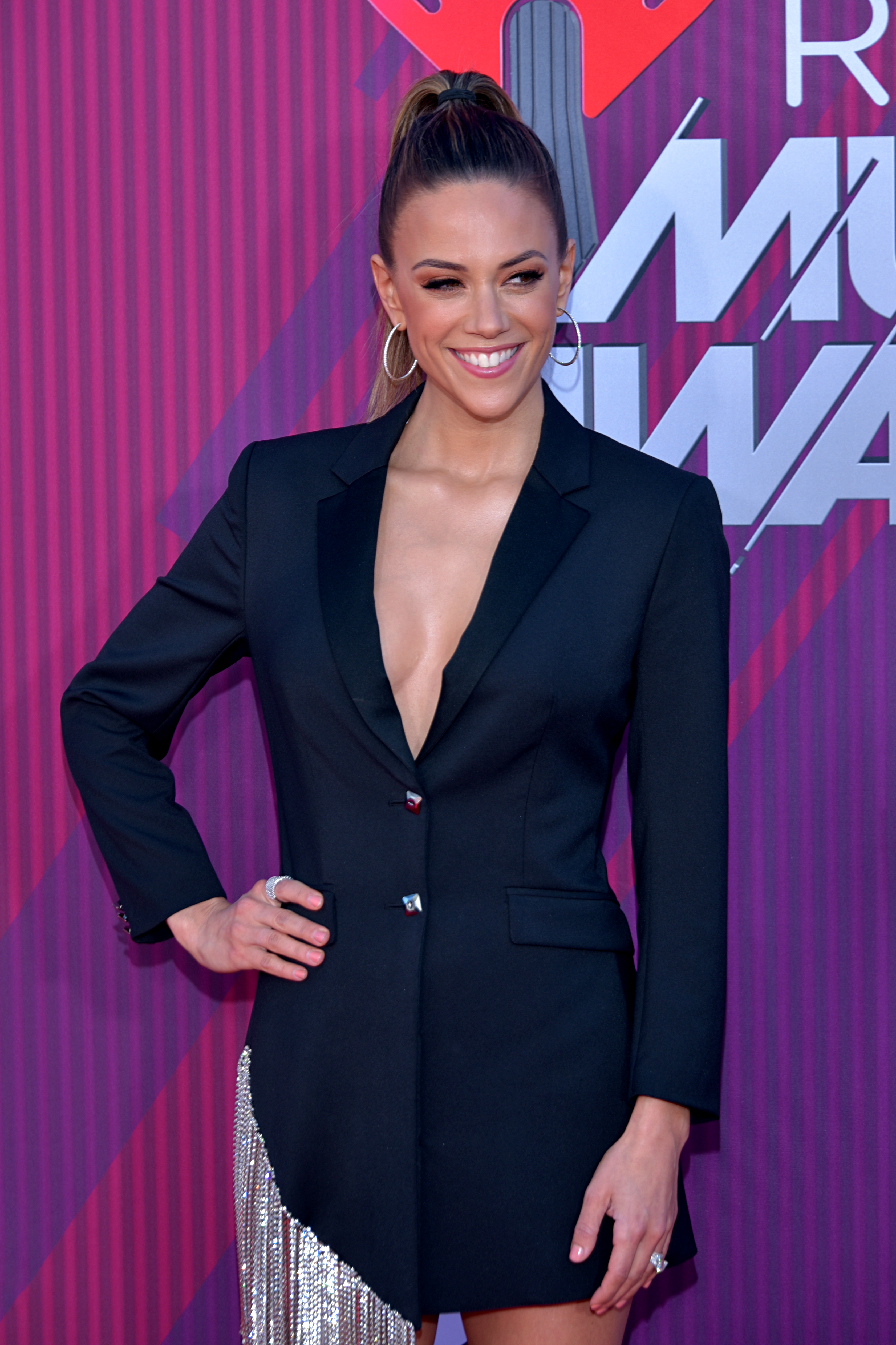 Jana Kramer at the 2019 iHeartRadio Music Awards in Los Angeles California on March 14, 2019 - Photo by Glenn Francis of